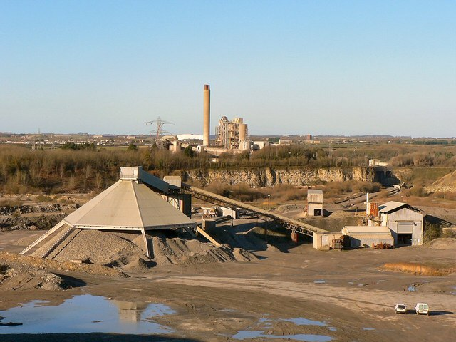 Aberthaw Quarry and cement works, Aberthaw: The picture shows plant used to stock and process raw material(limestone) taken from the quarry before moving it to the works for final processing into cement. This subject's main title should be Aberthaw Quarry and cement works and has previously been corrected as such in the photo subtitle. Rhoose quarry was the source of blue lias limestone excavated for the former sister company's Rhoose cement works just over two miles to the east of East Aberthaw. Rhoose cement works was closed in 1987, demolished along with the former Asbestos factory and the land remodelled. The associated Rhoose quarry now known as Rhoose Point, hosts many houses built in the quarry itself with some ponds remaining for wildlife. The former Rhoose main cement works site is also occupied by new houses south of the Vale of Glamorgan railway line.